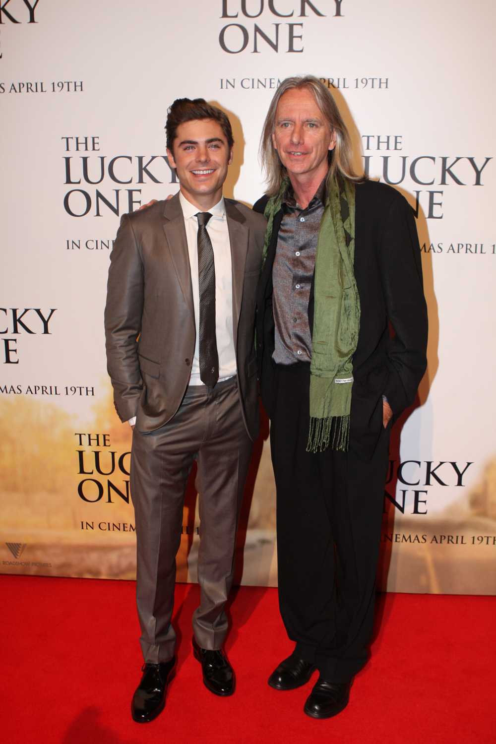 The Lucky One World Premiere At Bondi Juction, Sydney, Australia